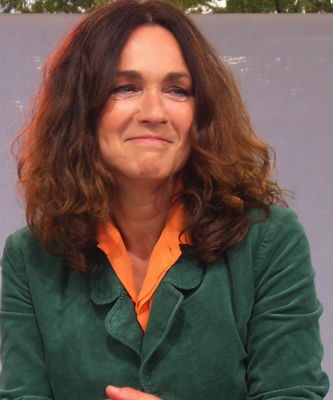 Angela Fritzsch at RBB Festival 2013 (10 years RBB)